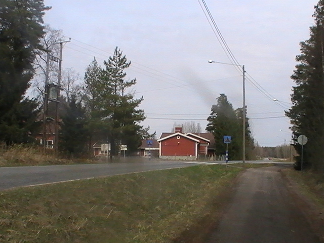 The village of Karhusuo at Säkylä, Finland. On the background you can see an elementary school named "Karhusuon koulu", which was discontinued in 2011.